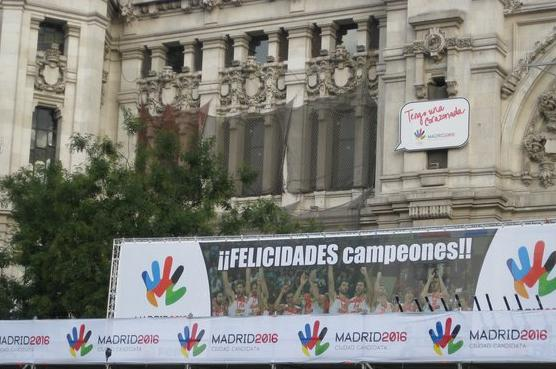 Stage for the Spanish basketball national team, winners of the Eurobasket 2009 in Poland. They also supported Madrid bid for 2016 Summer Olympics.